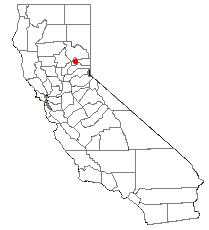 Locator map of Downieville — in Sierra County, California.